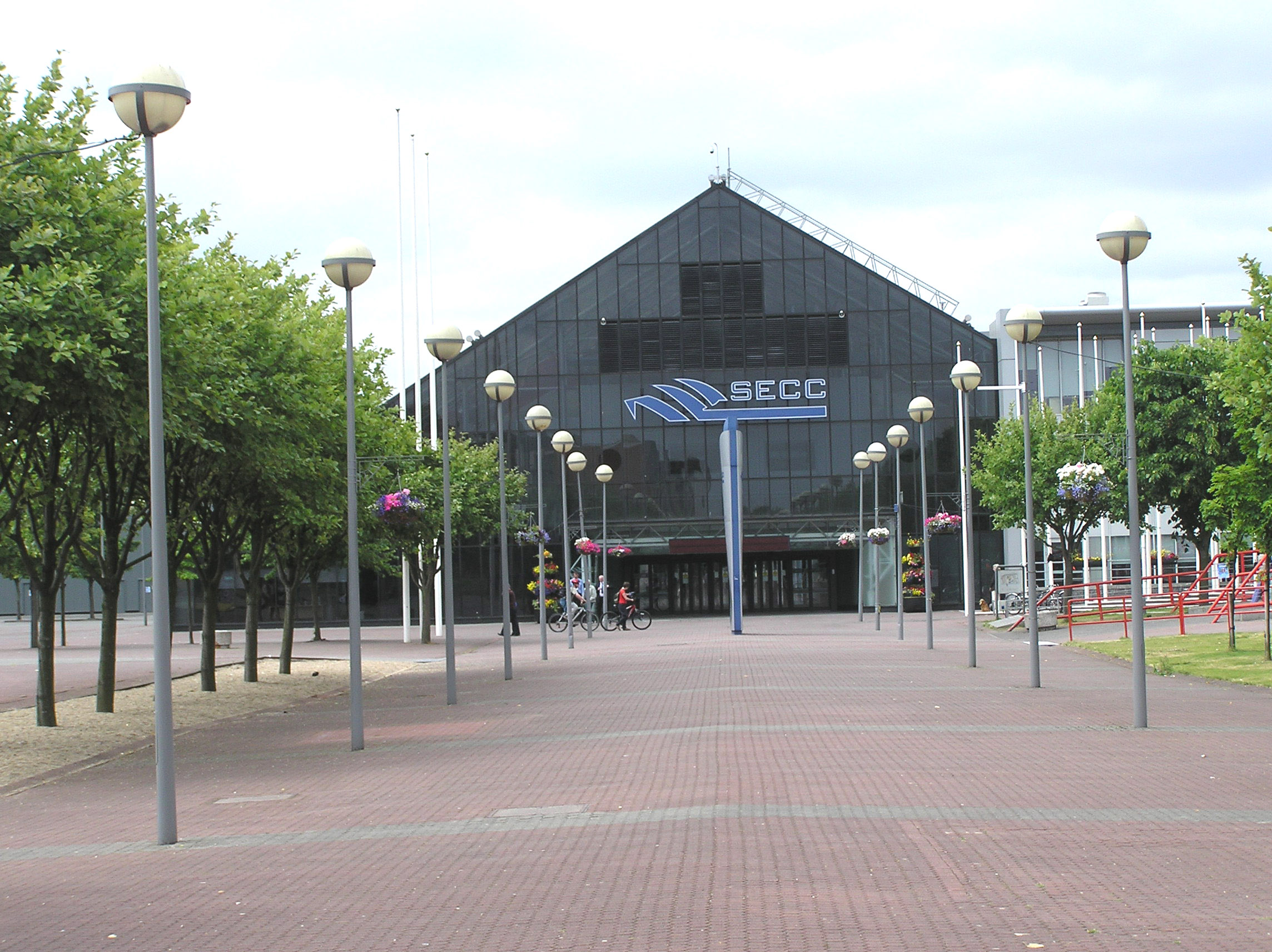 The front of the Scottish Exhibition and Conference Centre (SECC) in Glasgow Scotland.